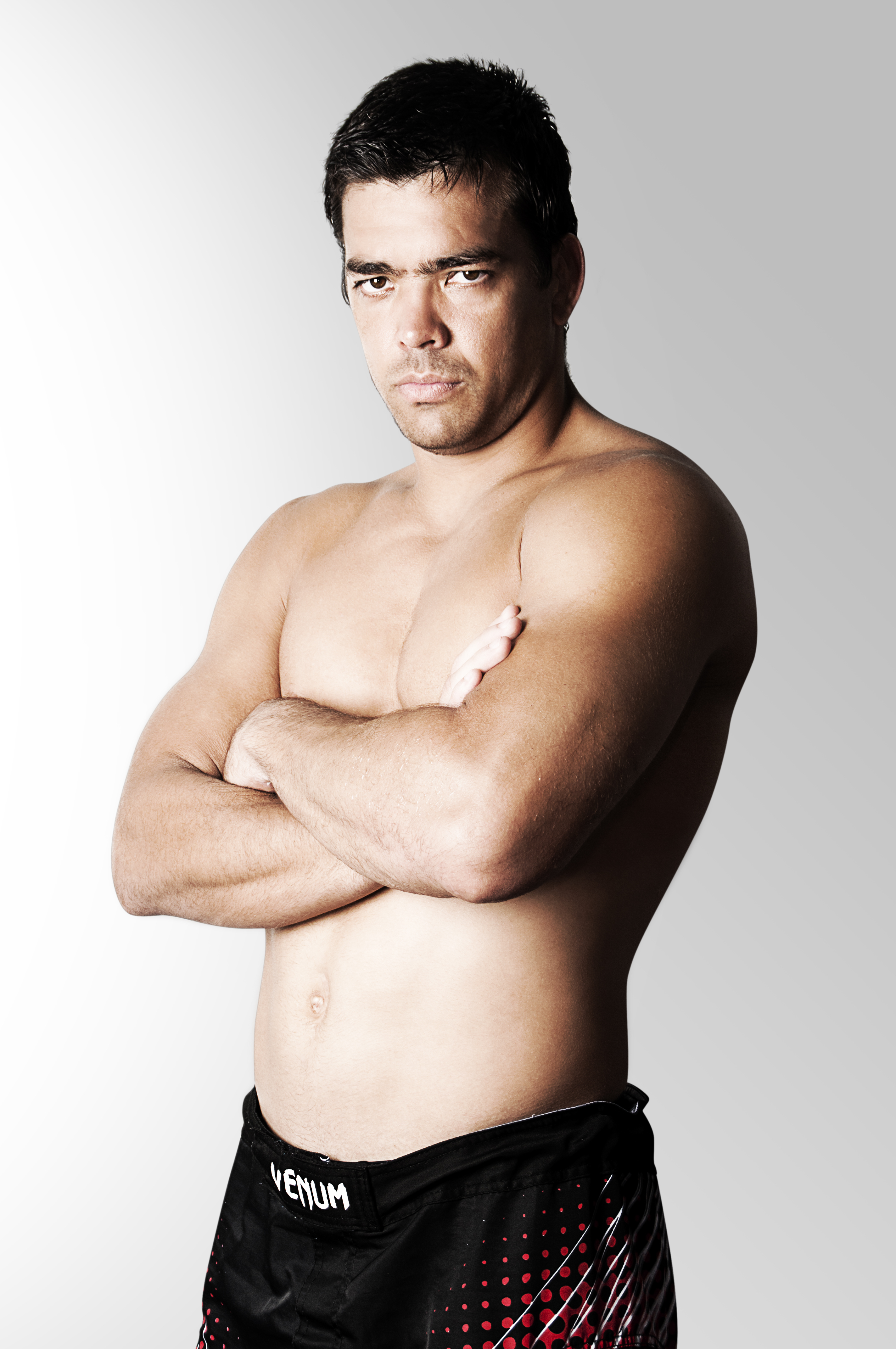 Photo produced for the campaign course - Yamada vs Lyoto Machida. Photo open.